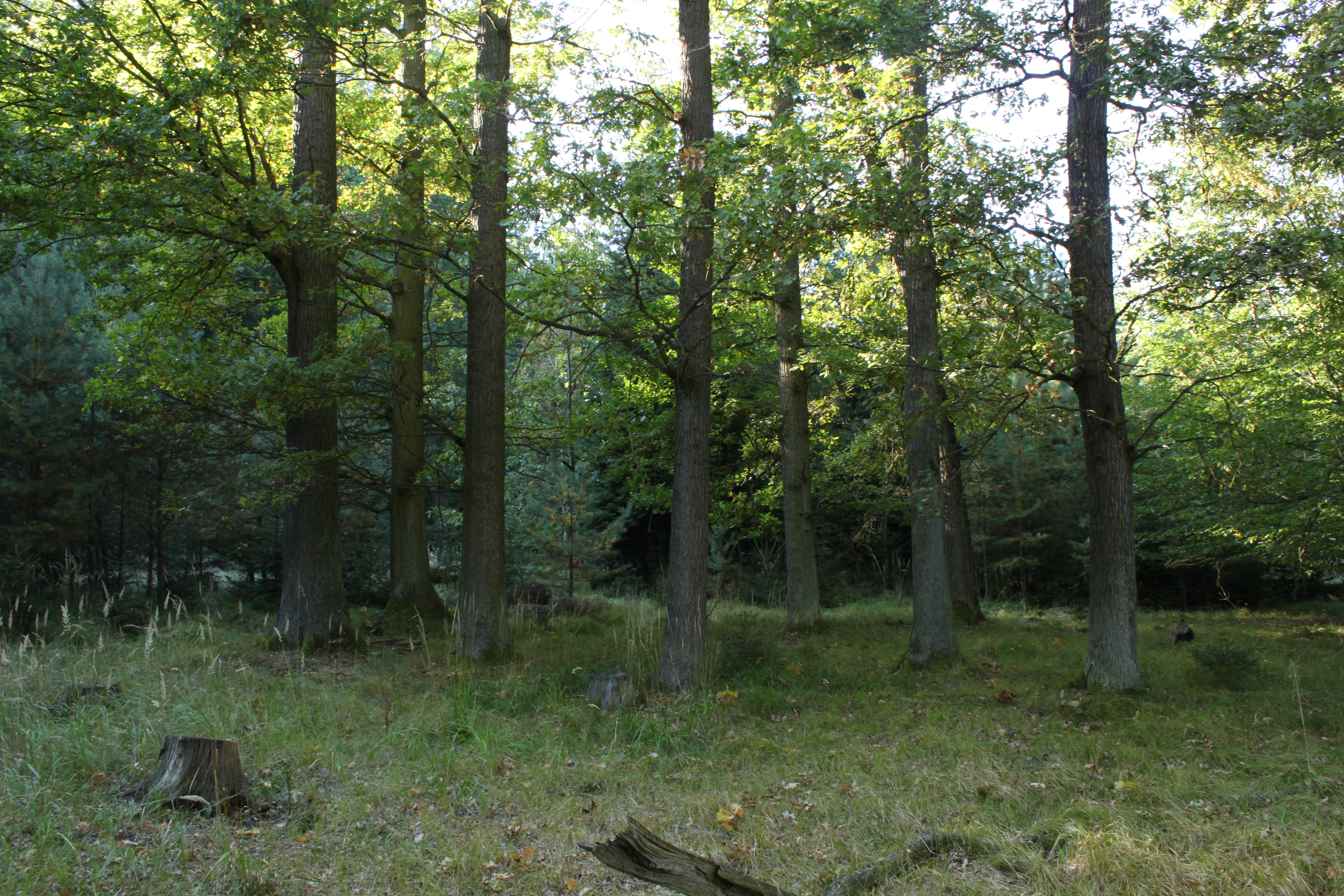 Natural monument "Černá stráň" in Hradec Králové District, Czech Republic. Mixed forest with rare plant species in the forest floor